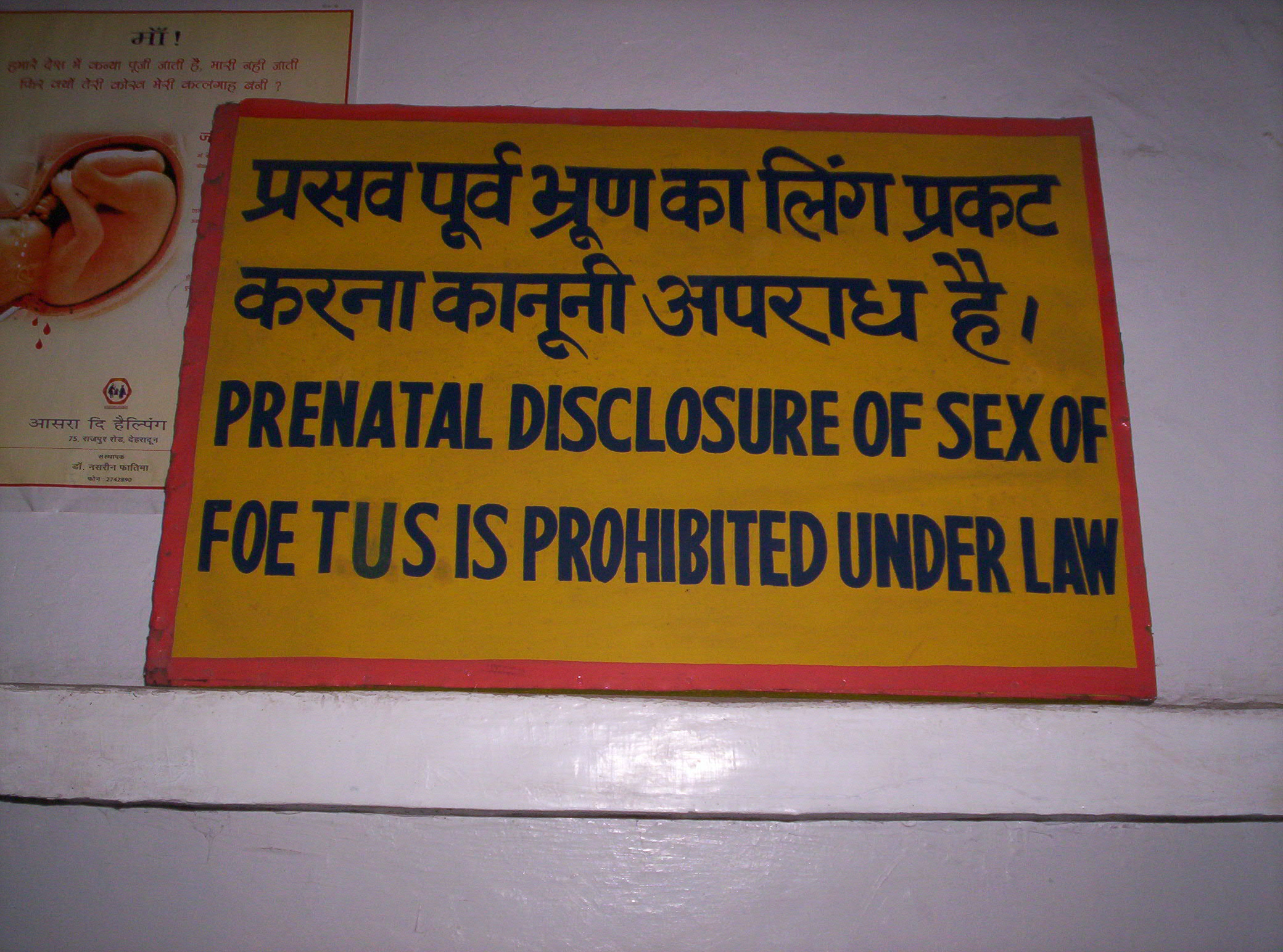 Large sign in an Indian clinic reading "Prenatal disclosure of sex of foetues is prohibited under law" in English and Hindi. Female infanticide is still a major problem in India.